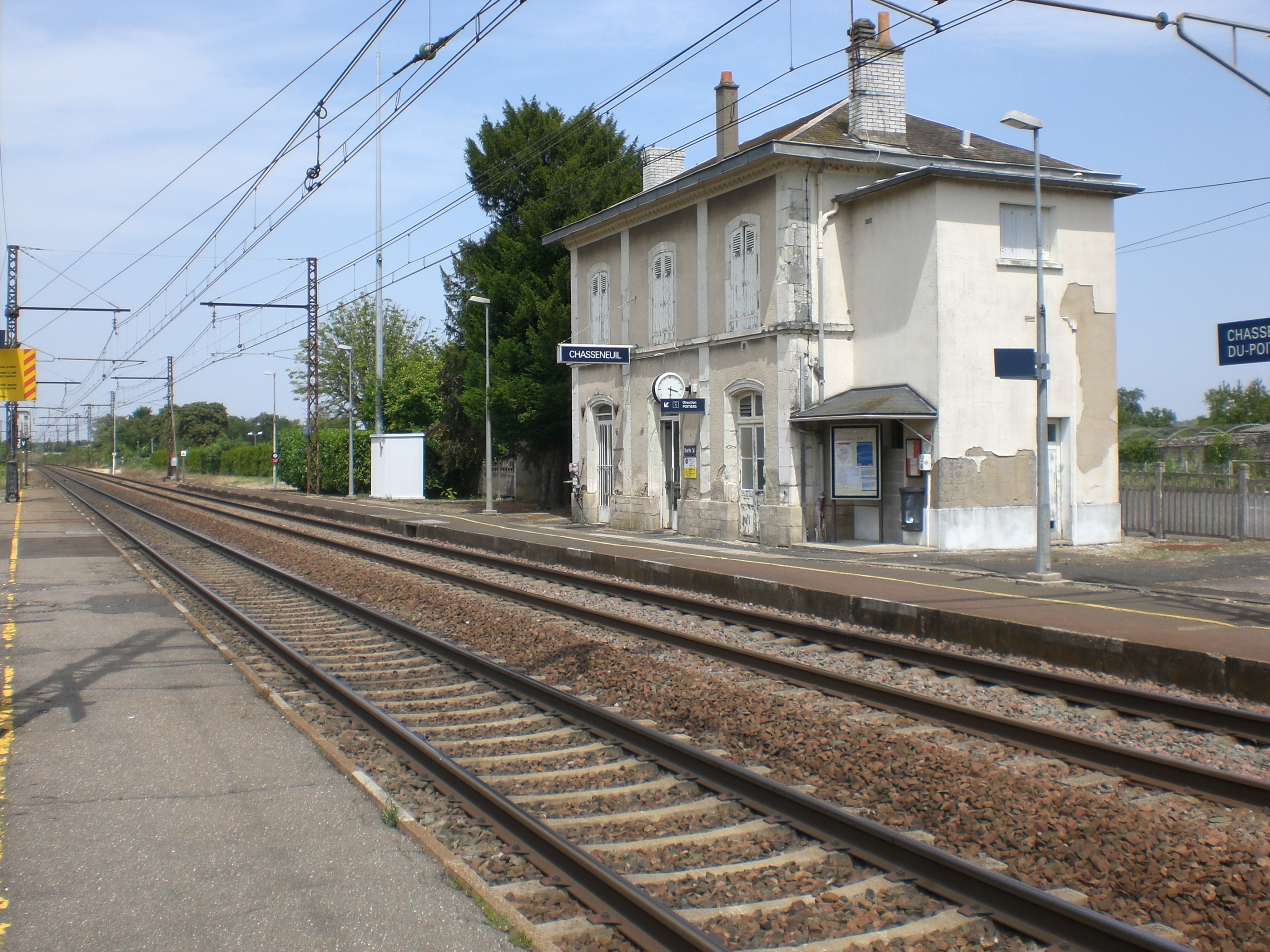 View of Chasseneuil-du-Poitou train station.